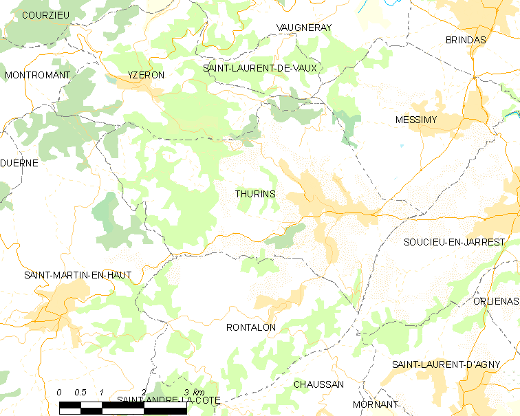 Map of French municipality